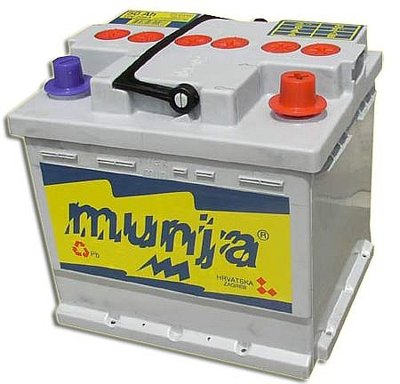 12 V Lead-acid automotive battery